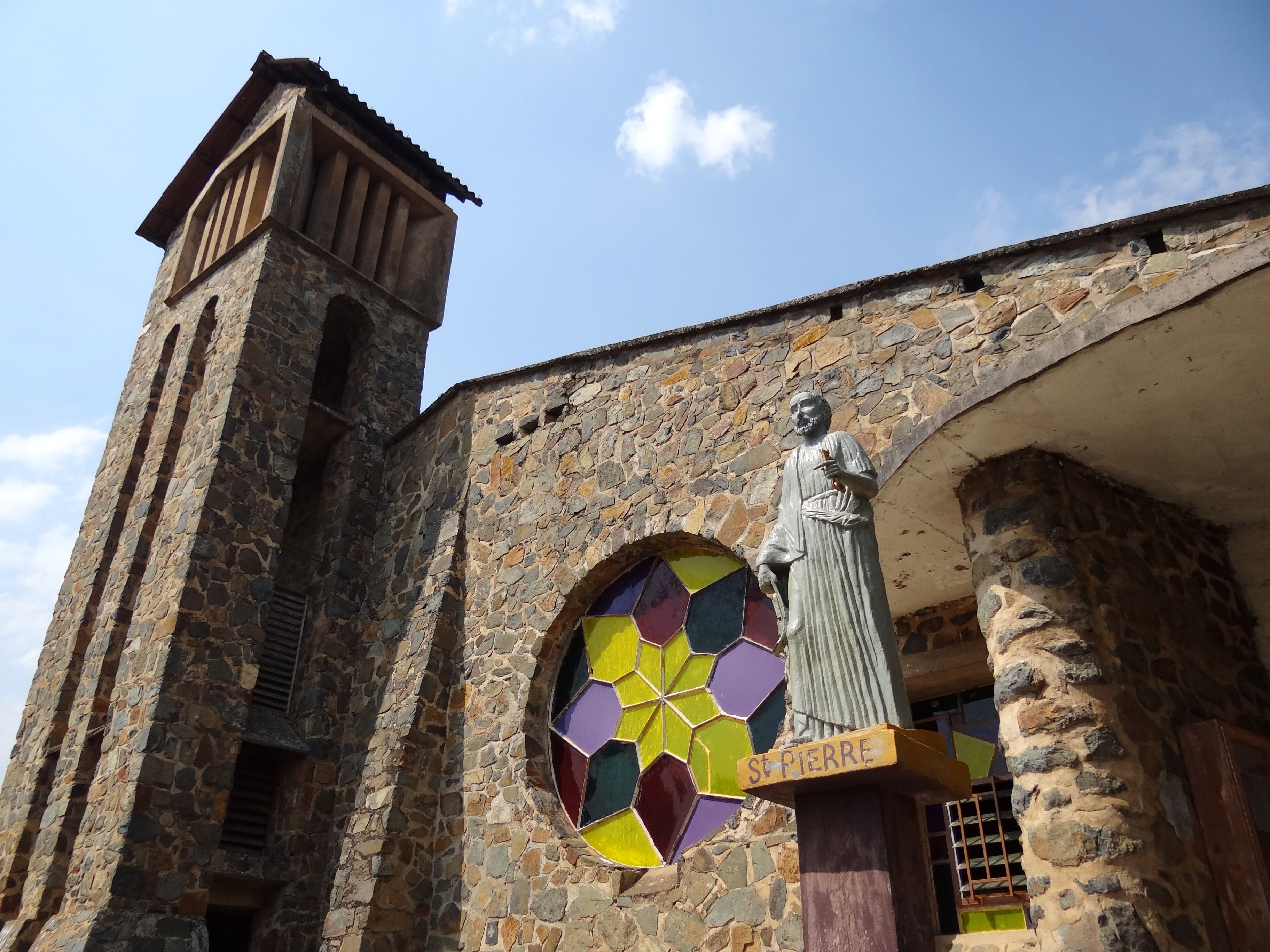 Facade of Genocide Memorial Church - Karongi-Kibuye - Western Rwanda - 02